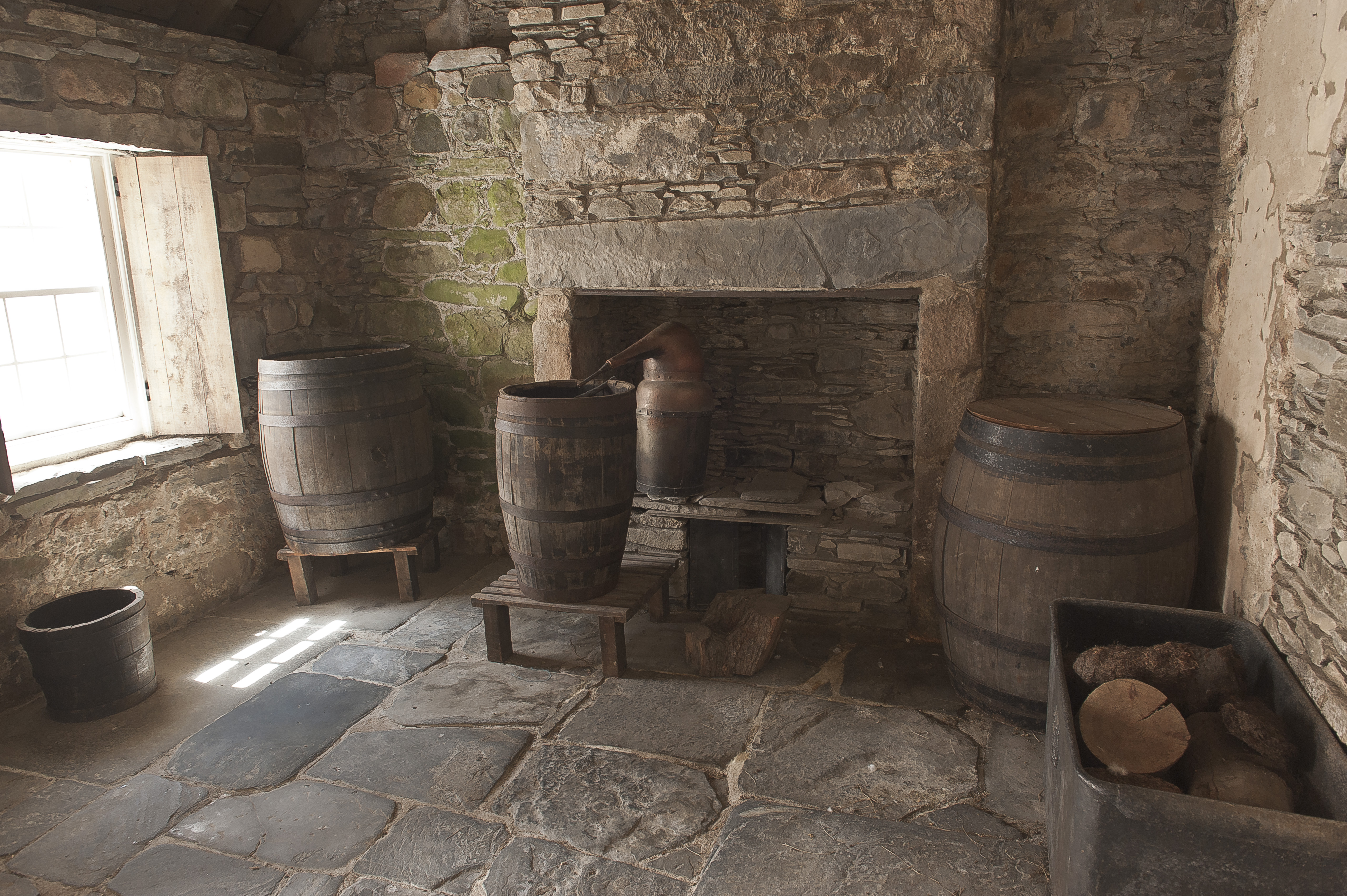 Whisky distillery of Corgarff Castle, Scotland